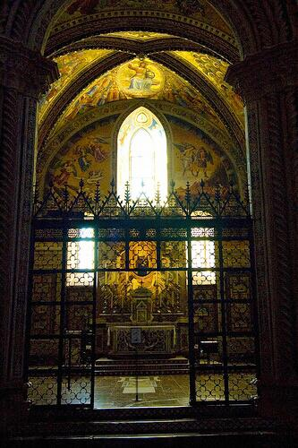 Chapel of the Madonna of San Brizio, Orvieto cathedral, Orvieto, Italy